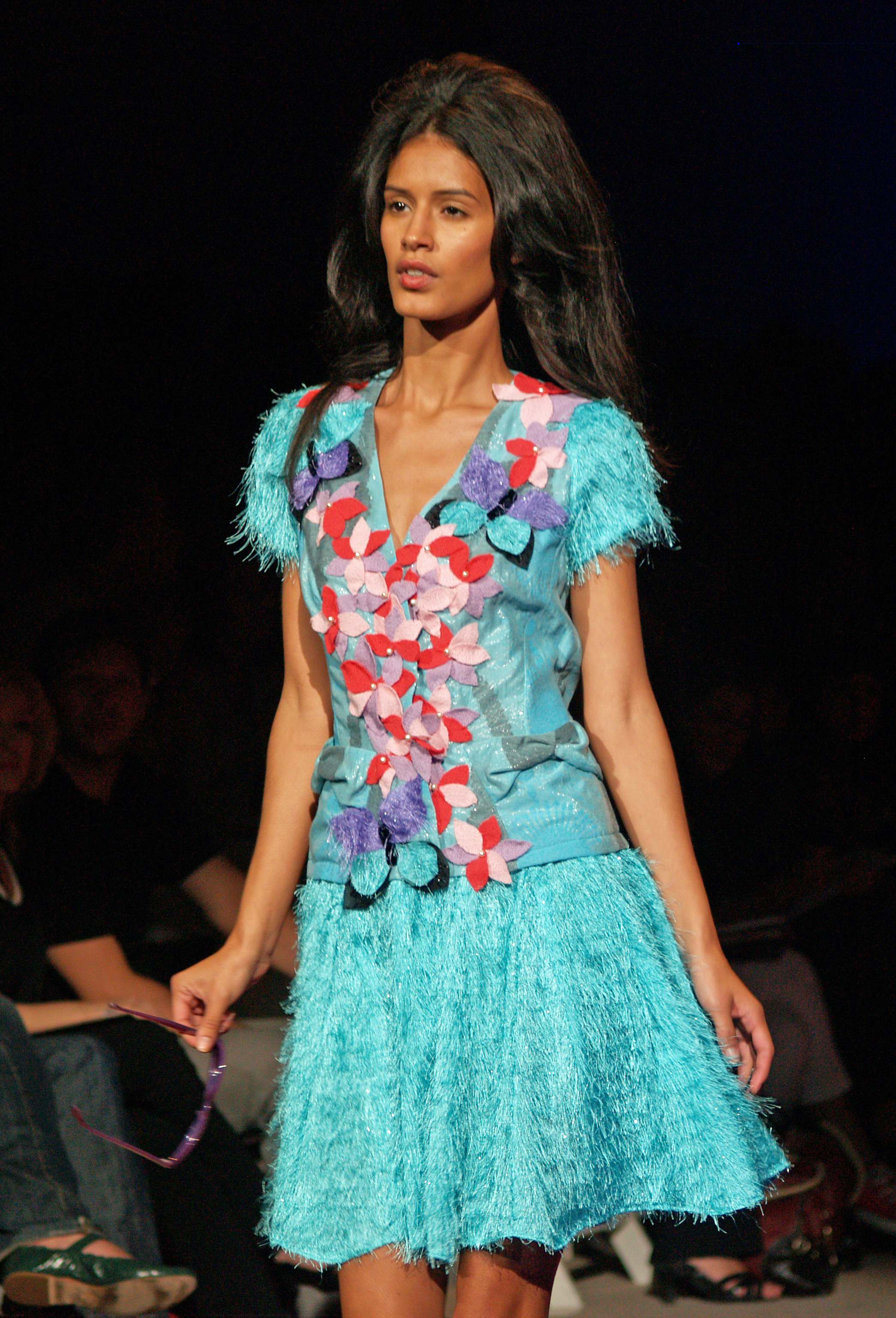 Model Jaslene Gonzalez at the Custo Barcelona 2009 spring collection runway show at Mercedes Benz Fashion Week in New York City